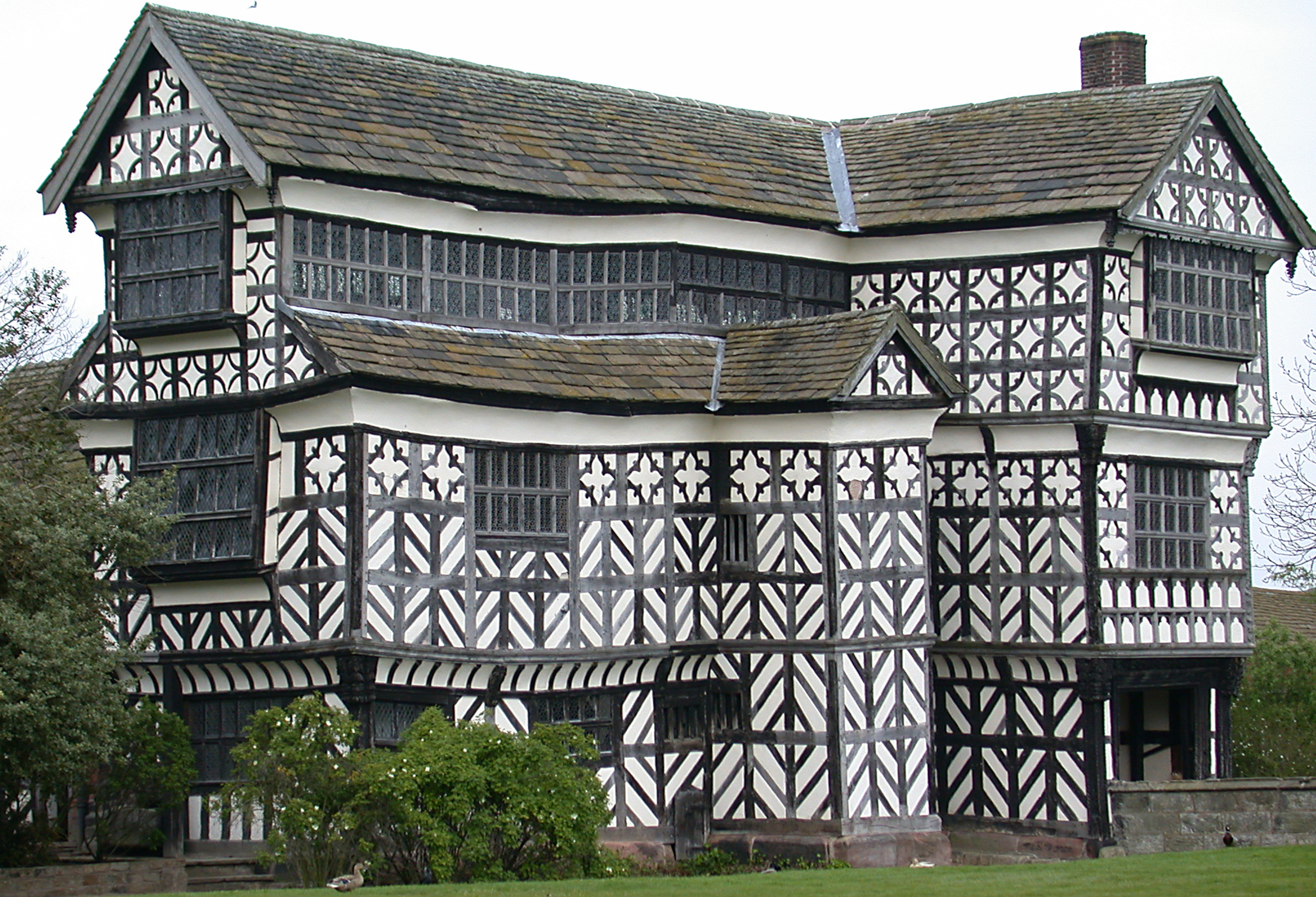 Little Moreton Hall, Cheshire, UK. Fine example of an Elizabethan timber-framed manor house